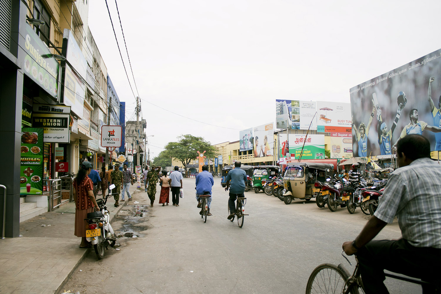 The Jaffna town. Pretty much Pettah.